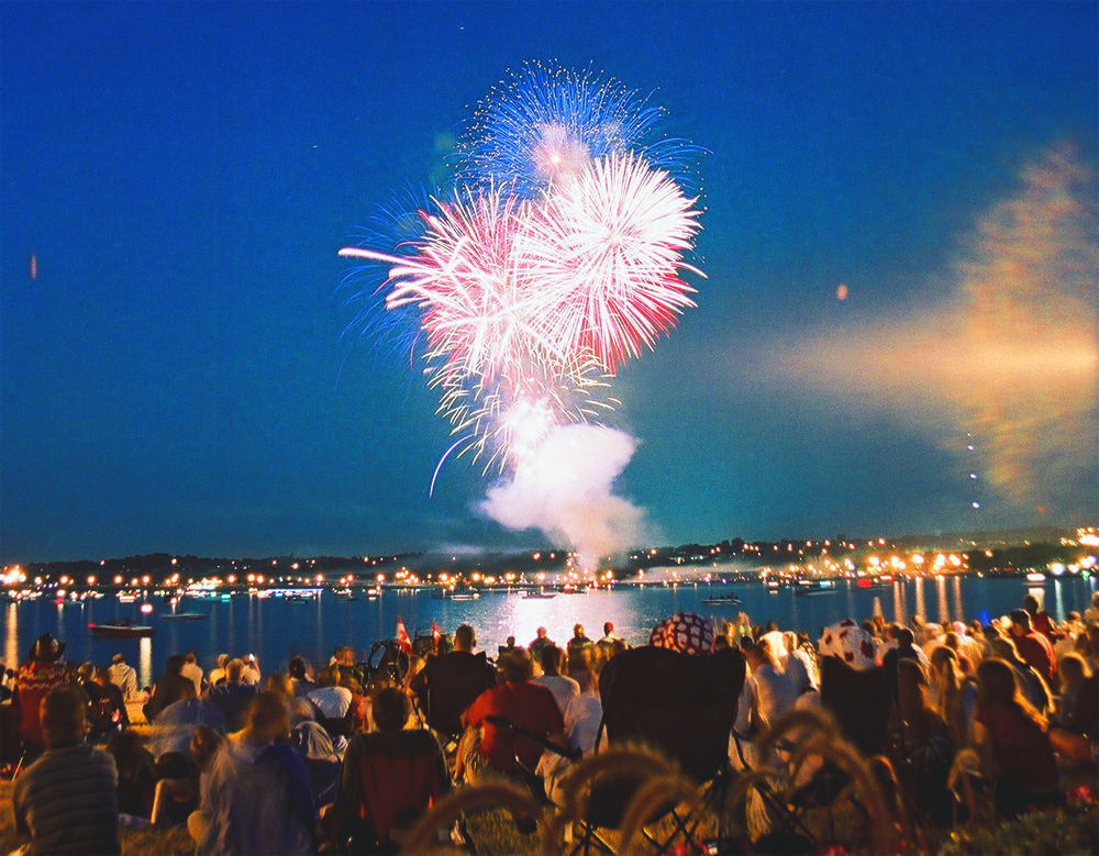 Taken 01 July, 2003, looking south across Kempenfelt Bay, Barrie, Ontario, Canada, during Canada Day celebrations.